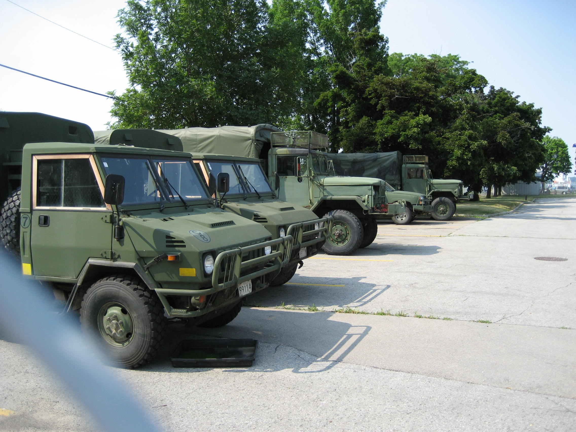 HMCS Star Naval Reserve Division, Pier 9, Hamilton, Ontario